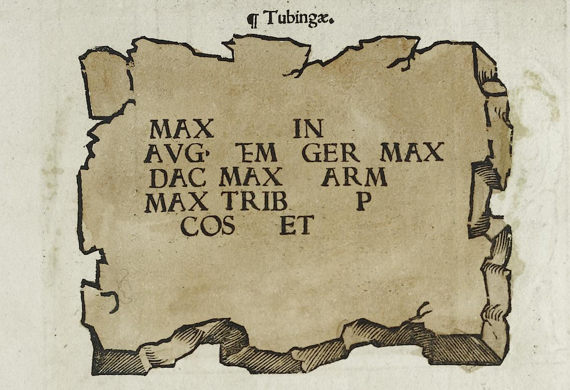 Roman Memorial Stone in Tübingen Painted by Petrus Apianus